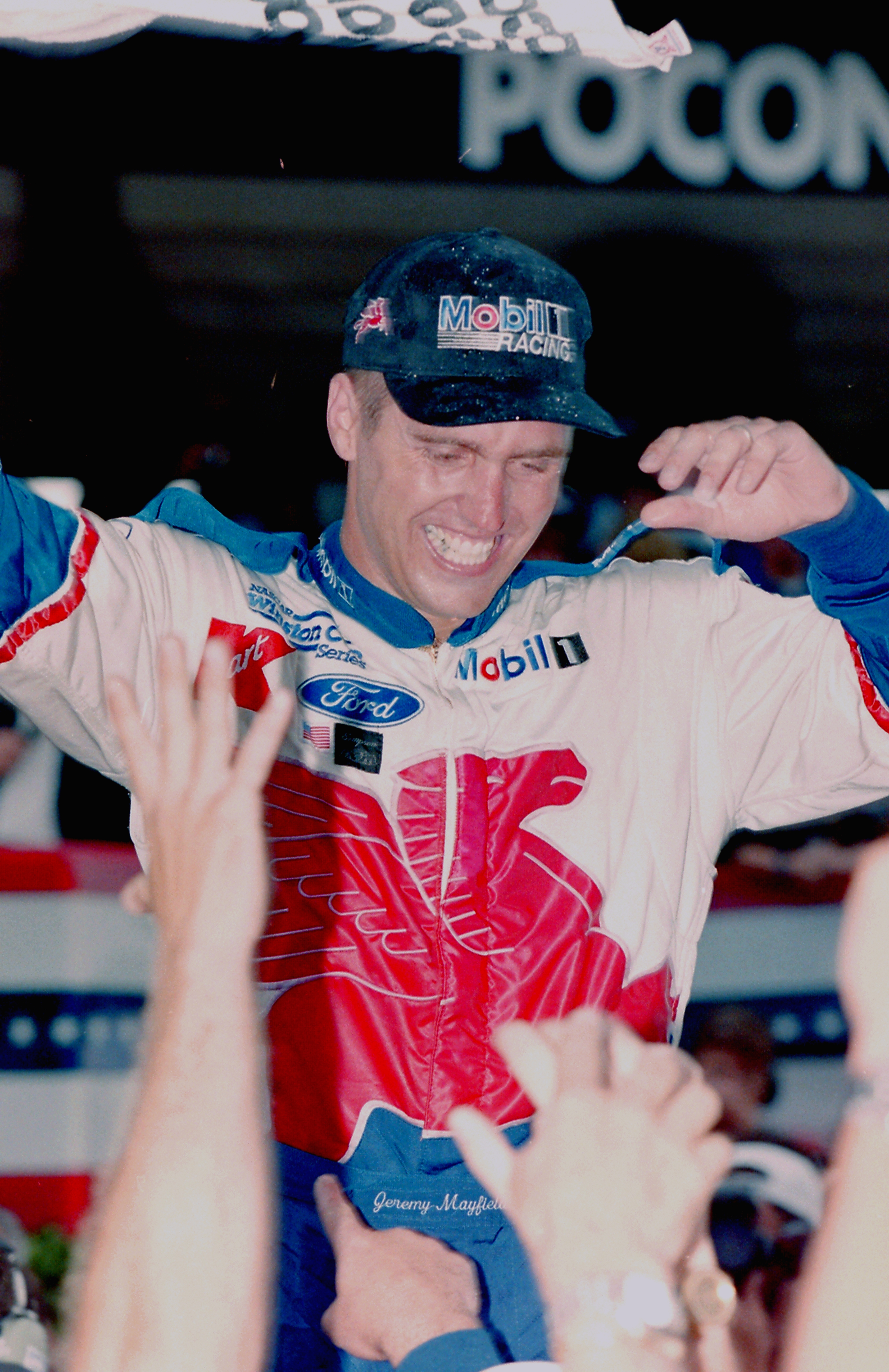 NASCAR driver Jeremy Mayfield after winning a race.